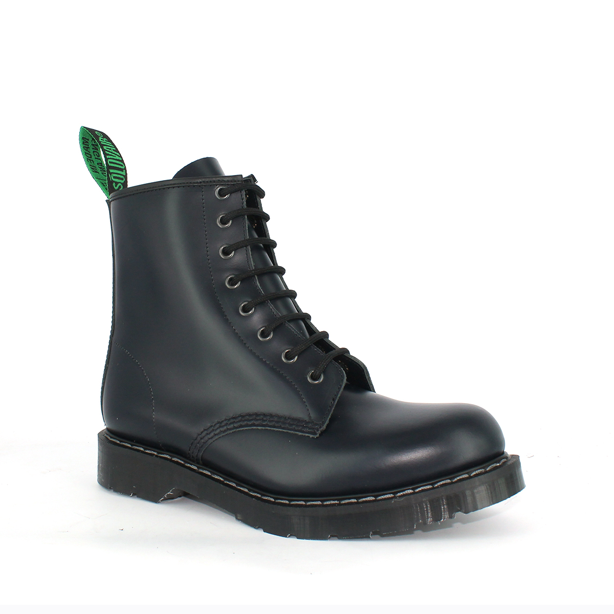 This is the current 2018 Solovair Derby boot